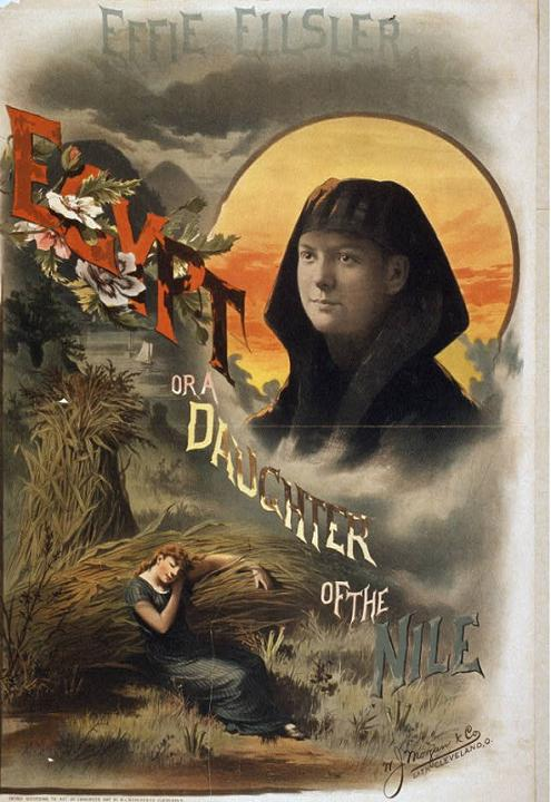 Effie Ellsler Egypt: or A Daughter of the Nile